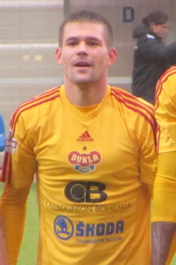 Luboš Kalouda of FK Dukla Praha after the match against FK Mladá Boleslav